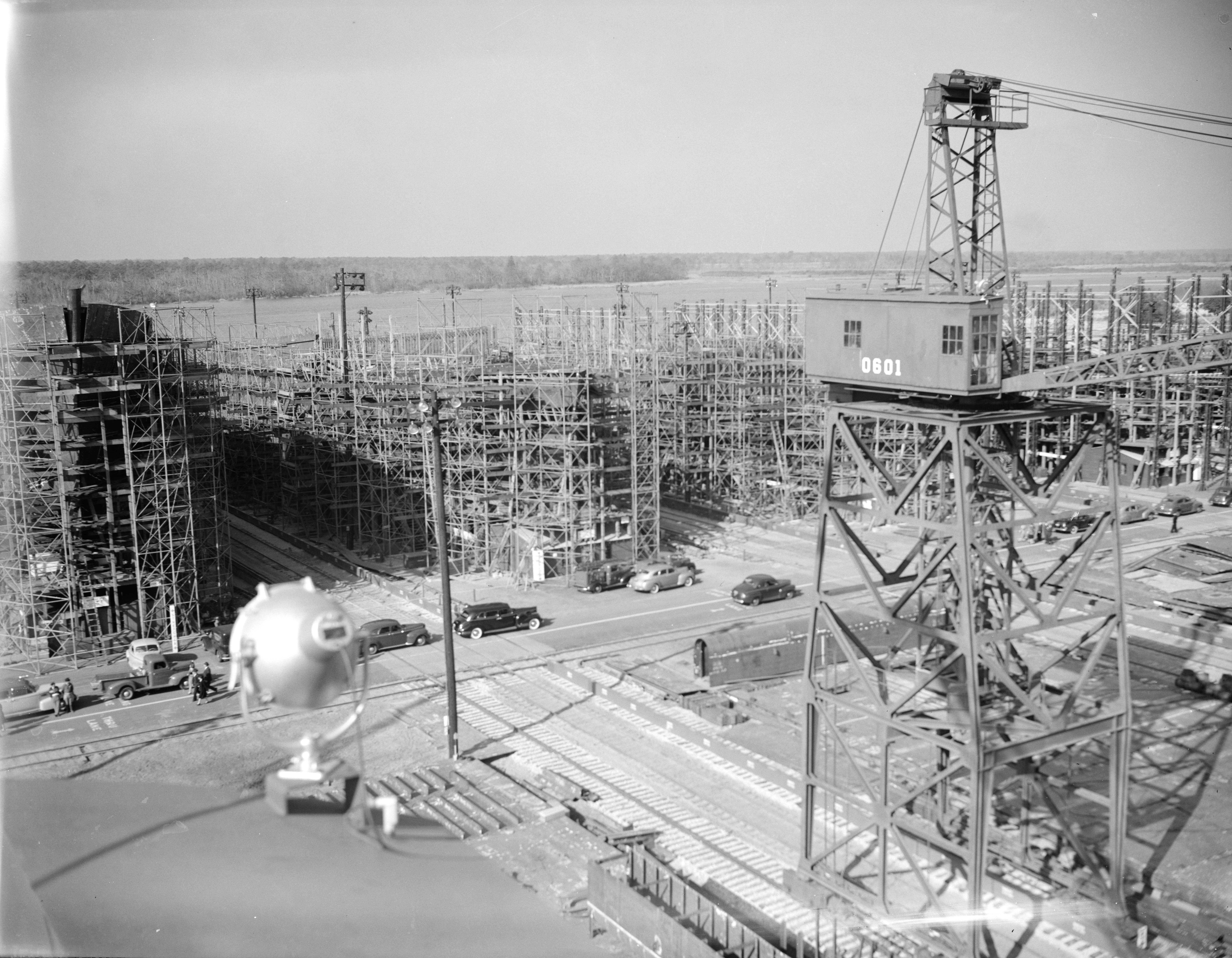 View of ships under construction at the North Carolina Shipbuilding Company in Wilmington, North Carolina (USA), during the Second World War. The shipyard was created as part of the U.S. Government's Emergency Shipbuilding Program in 1941. From 1941 through 1946, the company built 243 ships.